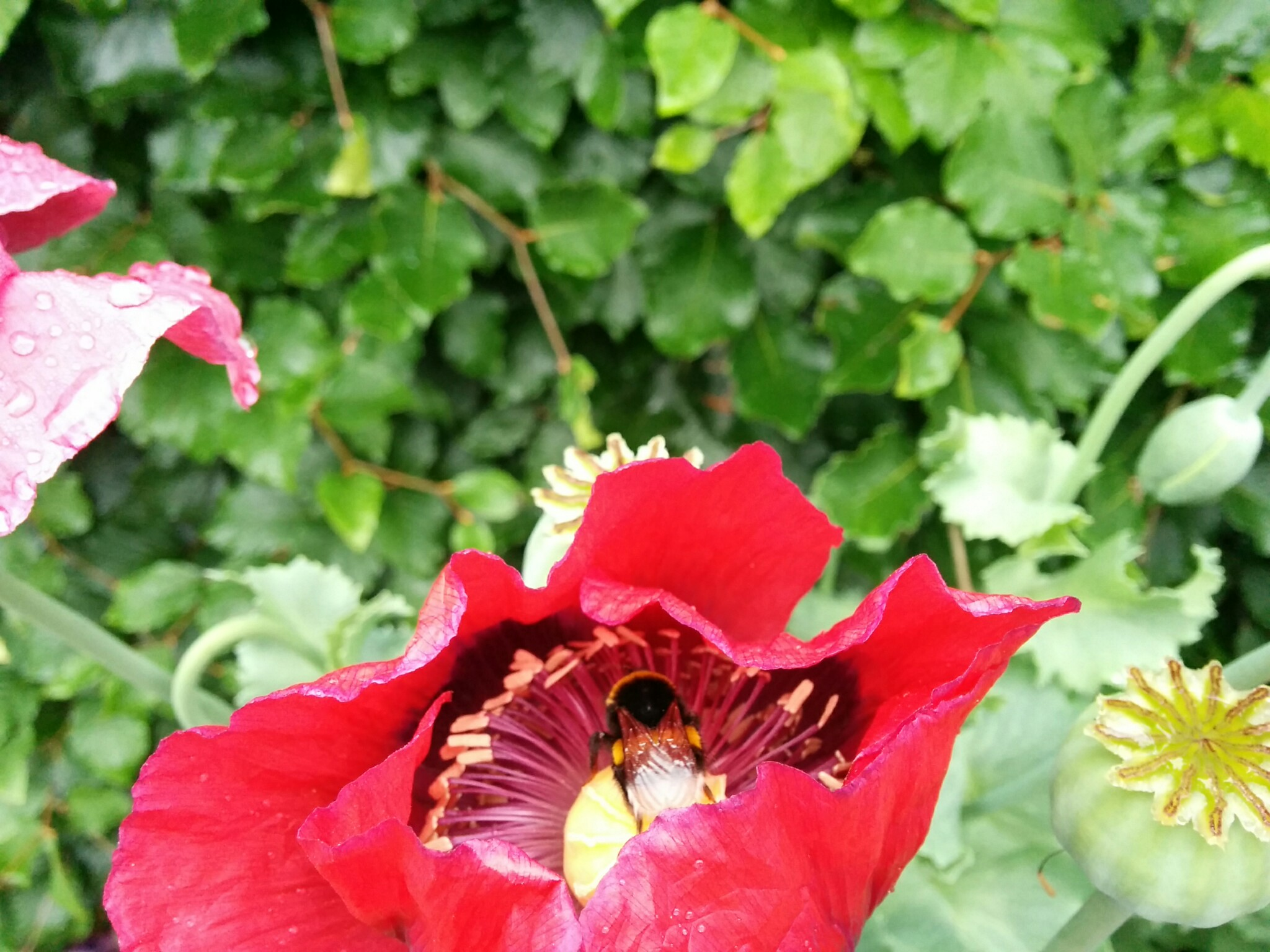 Papaver Somniferum